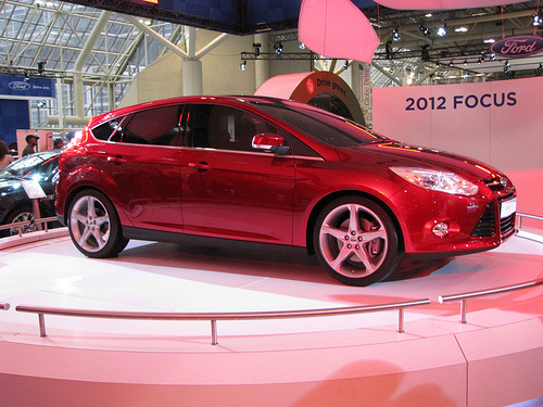 2012 Ford Focus at the 2010 Canadian International Auto Show.